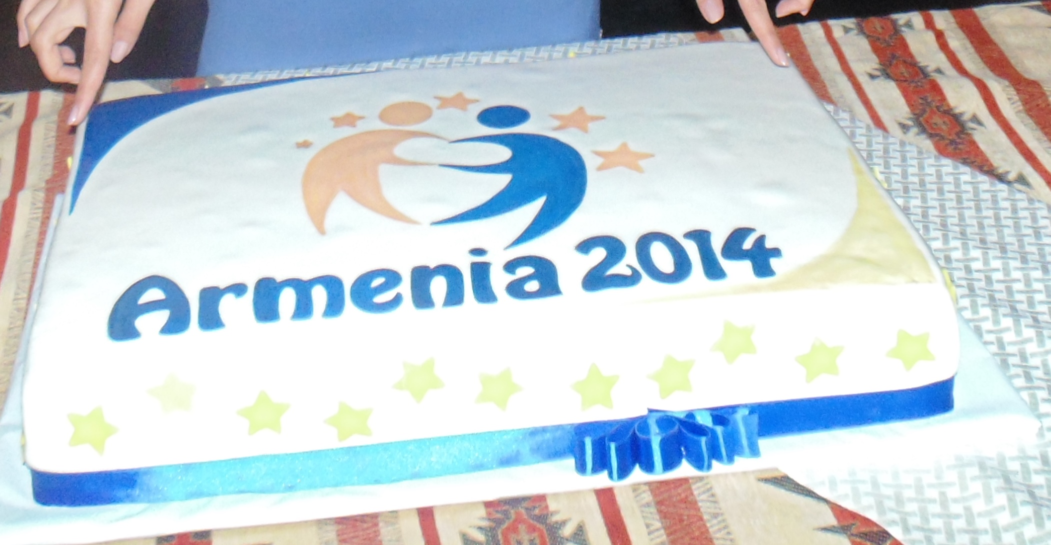 Իթվինինգ